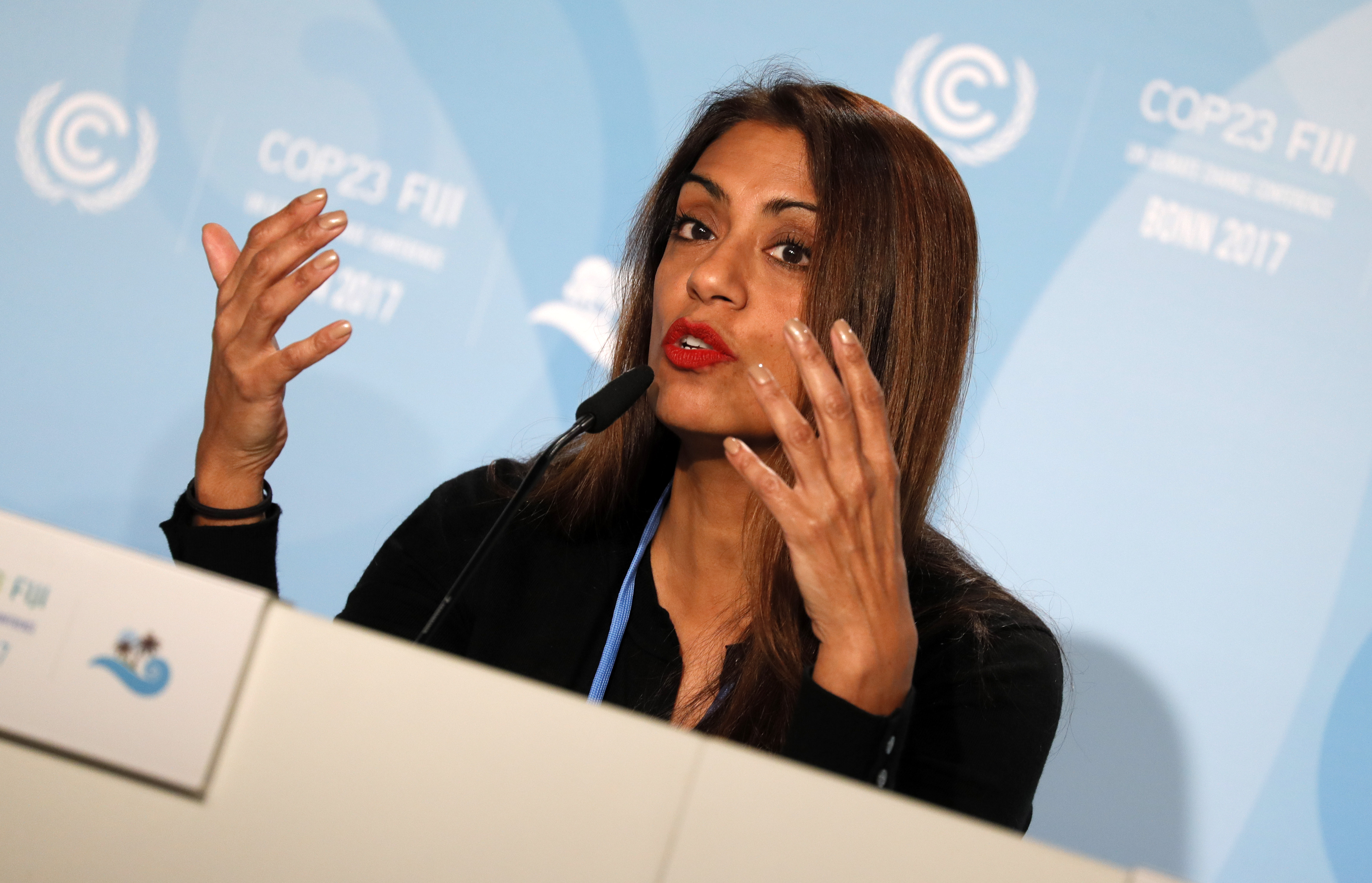 epa06318319 Professor of Economics, Northeastern University PhD in Boston, USA, Madhavi Venkatesan speaks at a press conference during the UN Climate Change Conference COP23 in Bonn, Germany, 09 November 2017. The 23rd session of the United Nations Framework Convention on Climate Change Conference (UNFCCC), the 2017 UN Climate Change Conference COP23 will take place from 06 to 17 November in Bonn, the seat of the Climate Change Secretariat, under the presidency of Fiji. EPA-EFE/RONALD WITTEK